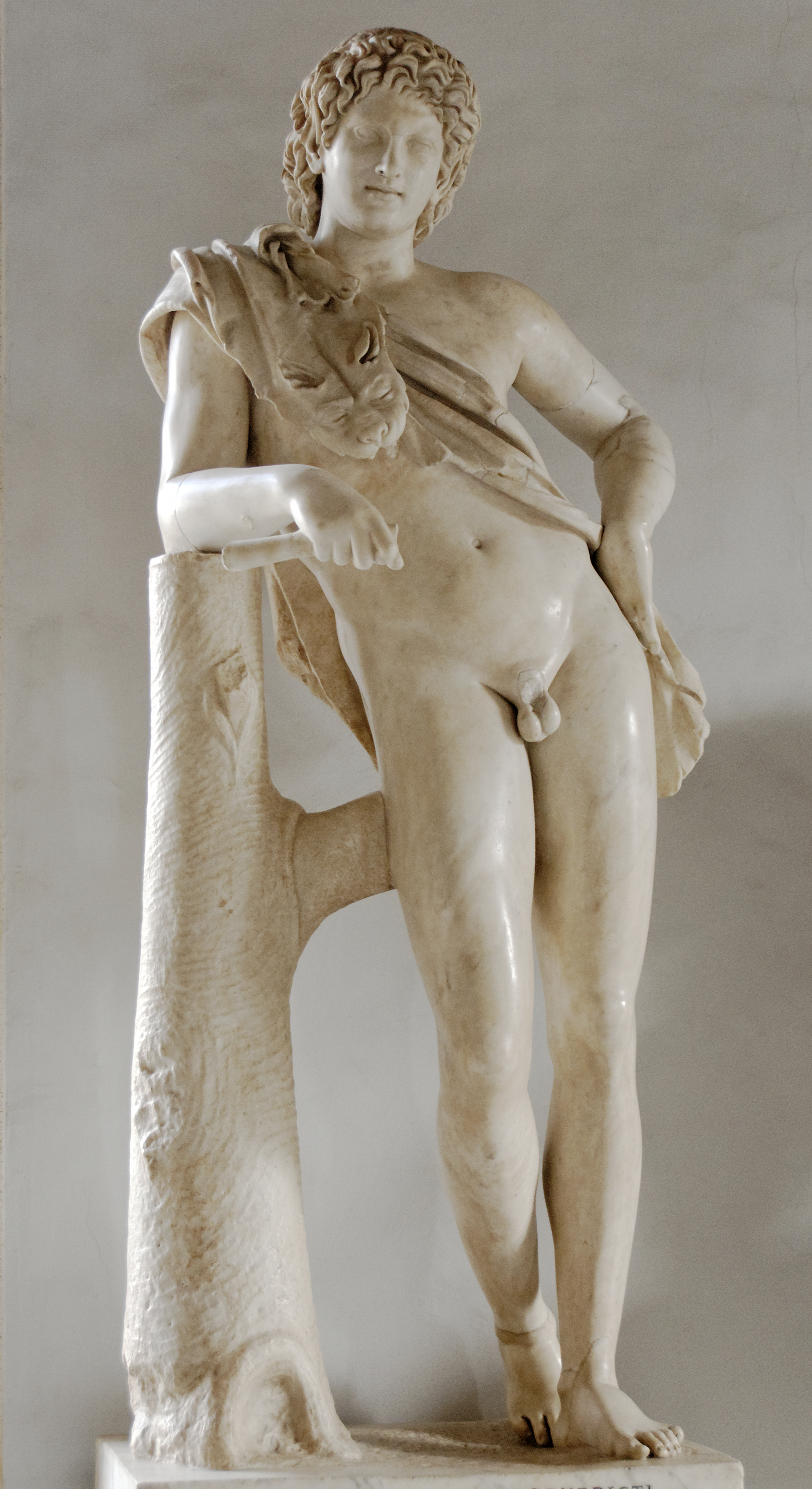 Satyr leaning on a tree trunk. Roman copy of the Imperial era after a Greek original of the Late Classicism; restored in 1999. Dating from ca. 130 AD (copy); 4th century BC (original by Praxiteles).